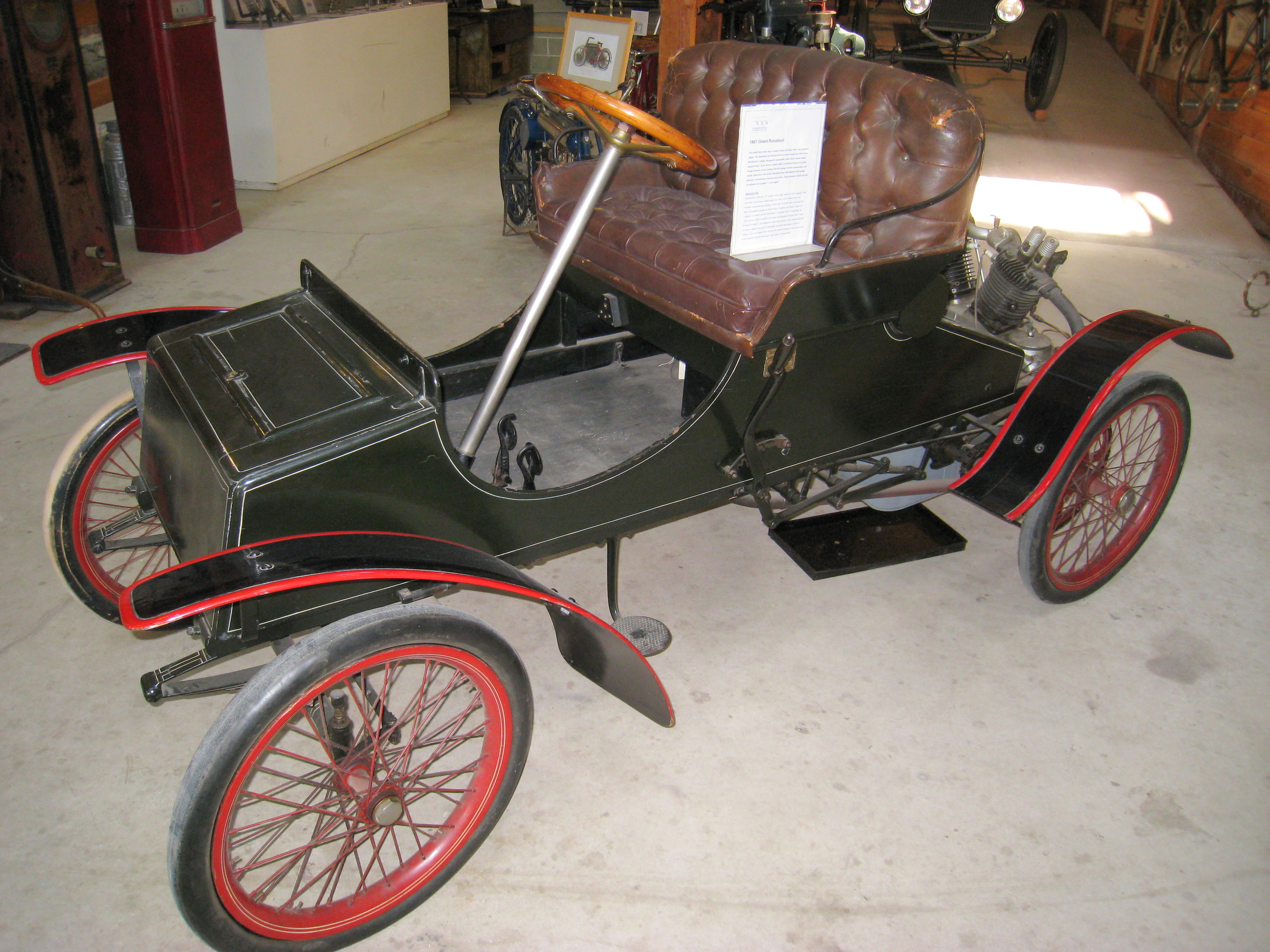 Orient Runabout, 1907, Waltham Manufacturing Company, Waltham, Massachusetts, USA.